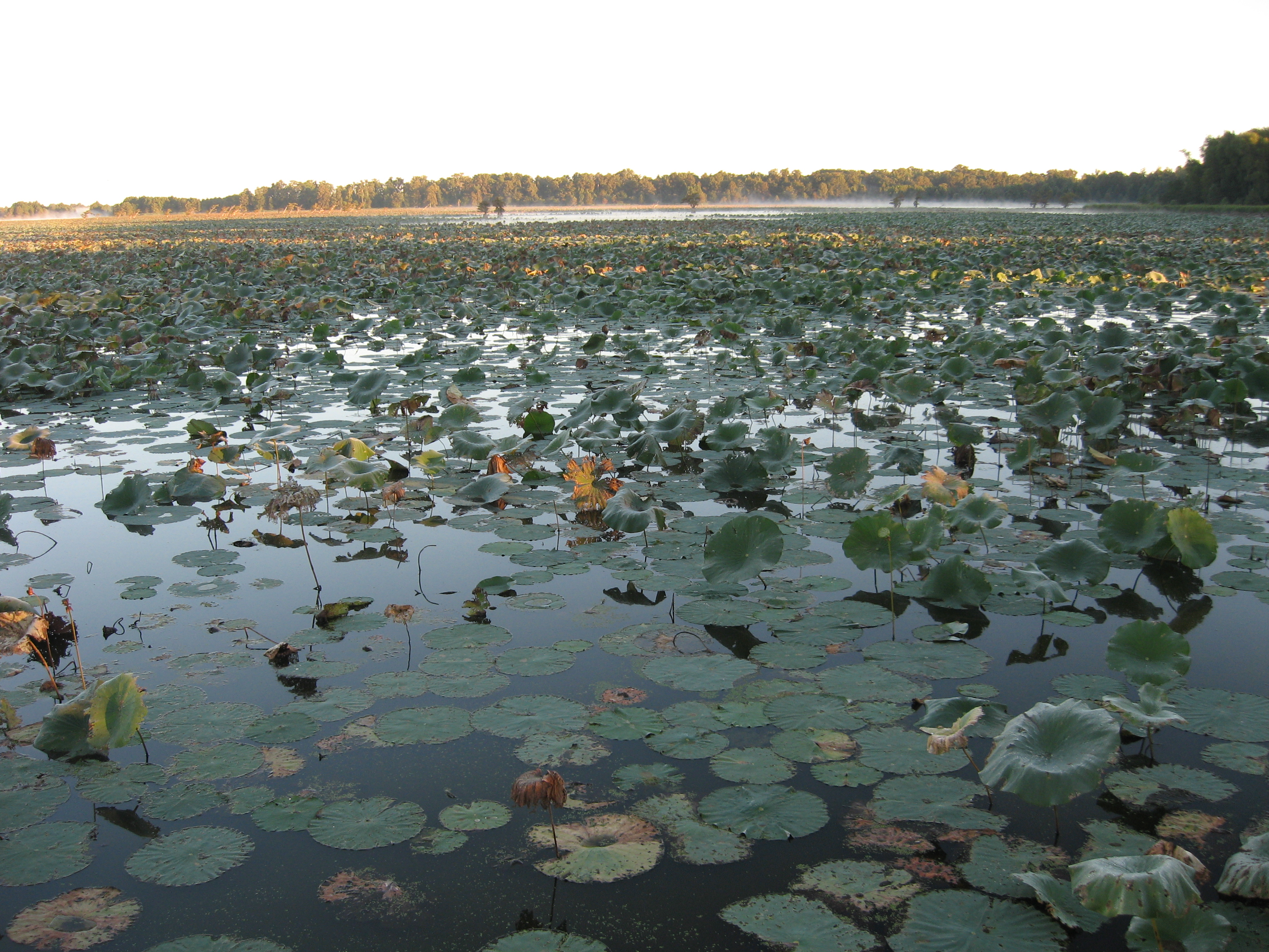 Reelfoot Lake, viewpoint from Samburg, Obion County, Tennessee. Shallow water with thick aquatic vegetation.